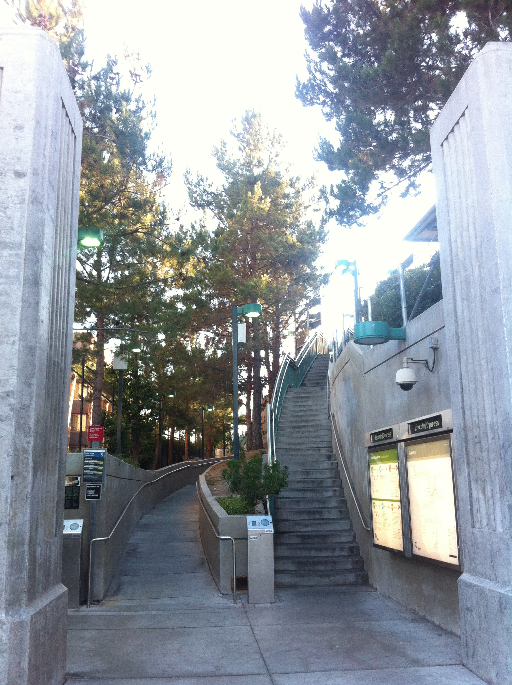 The entrance of Lincoln/Cypress Station.